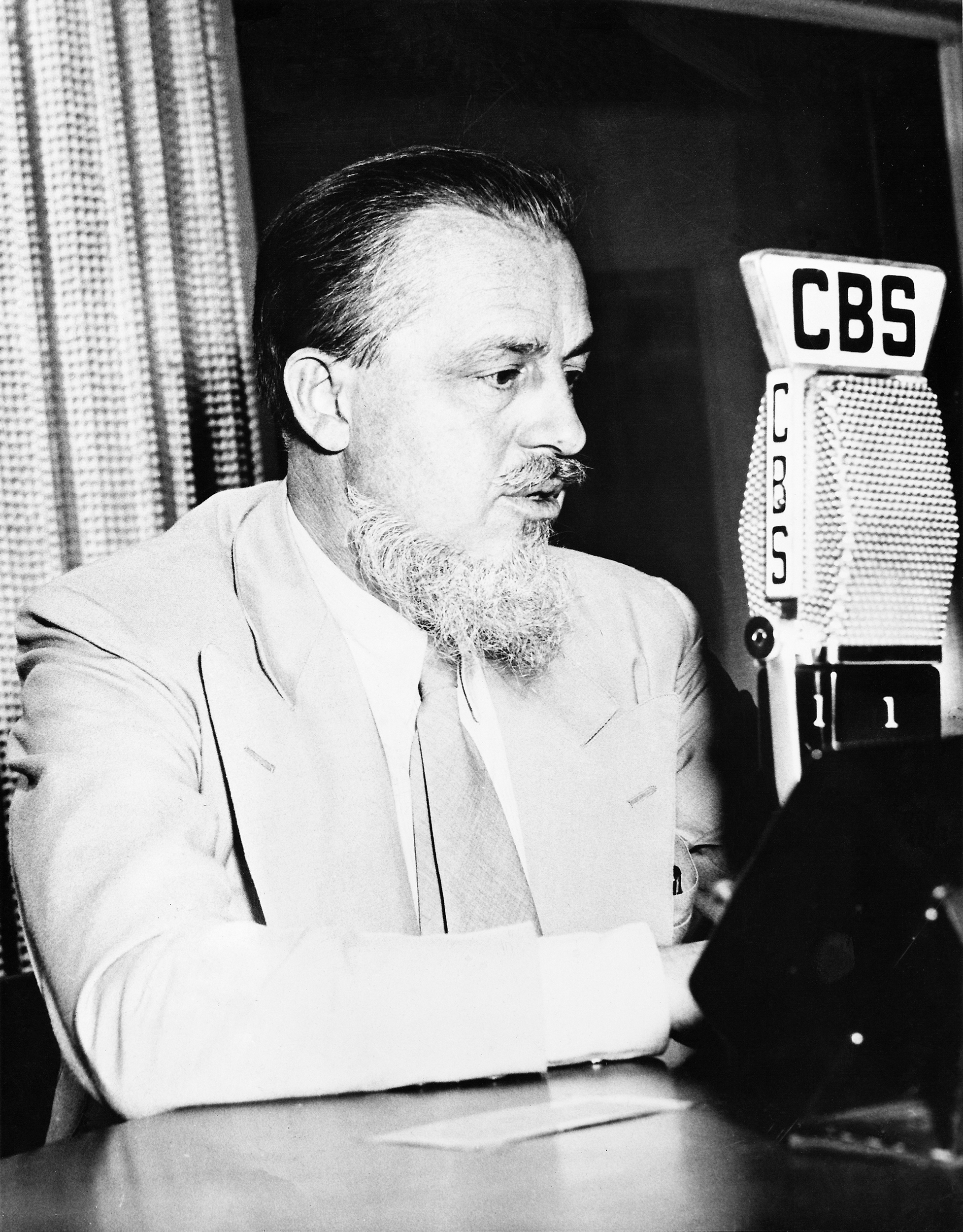 Promotional photo of Rex Stout, conducting the CBS Radio program Our Secret Weapon (1942–1943)